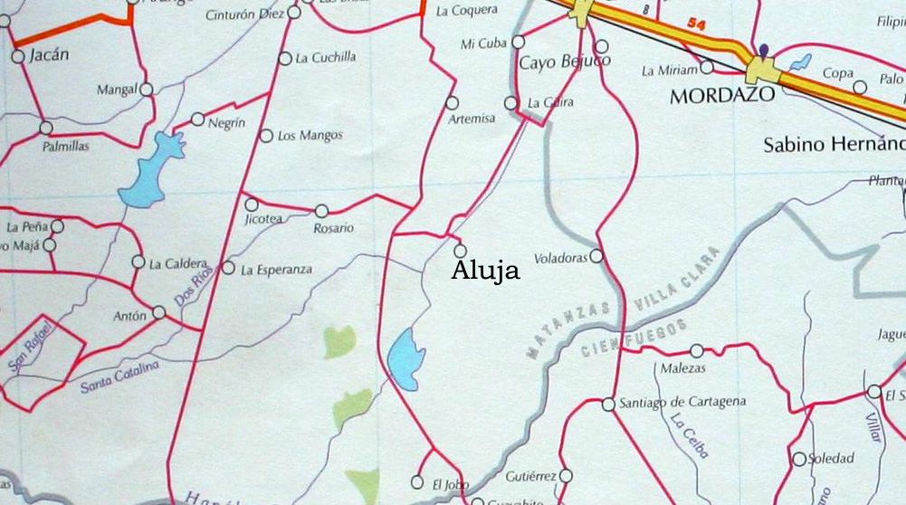 Aluja, Cuba, roadmap Located